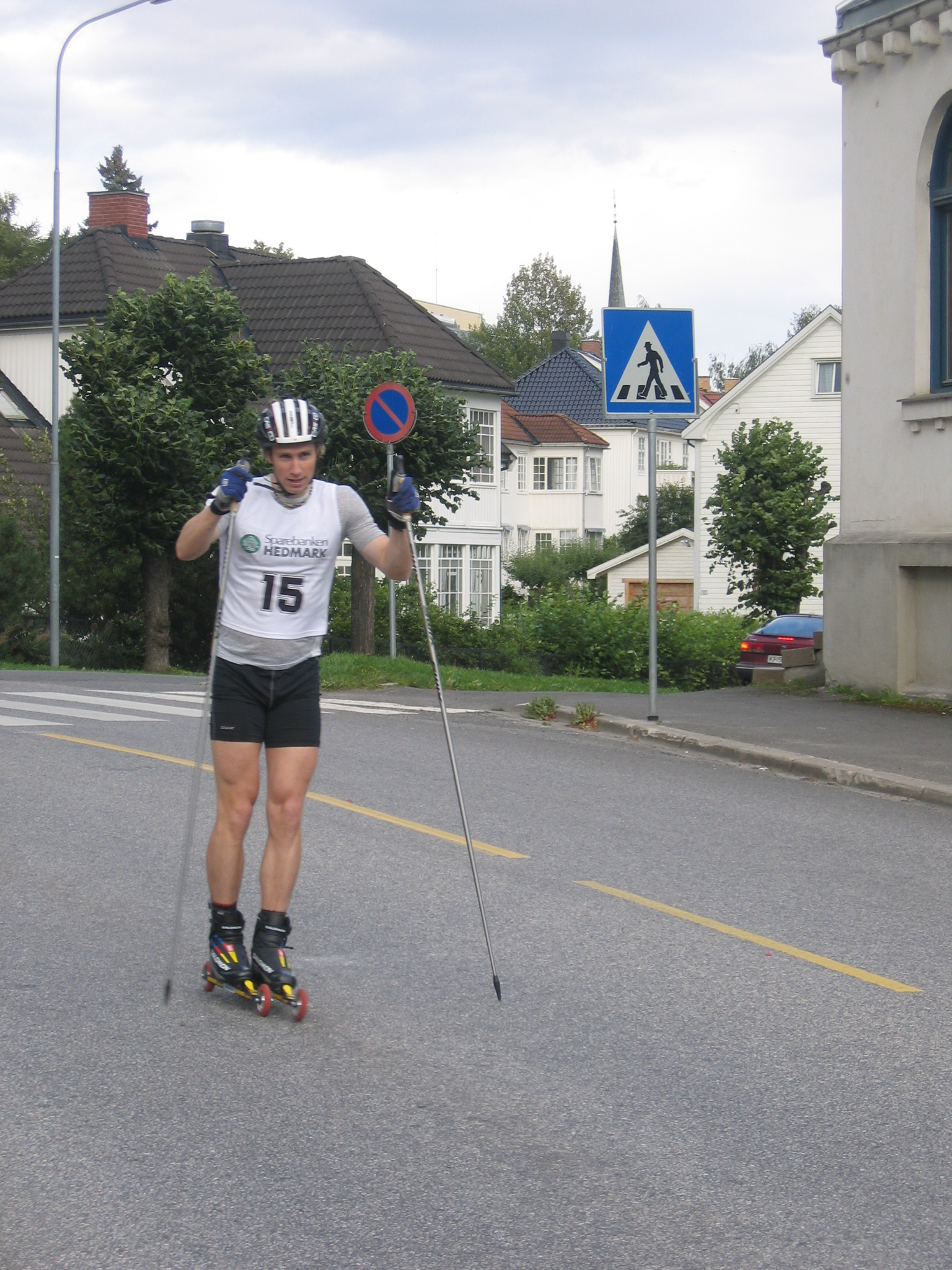 The Norwegian cross-country skier Rune Muller under Kirkebakken Grand Prix 2007 in Hamar, Norway.